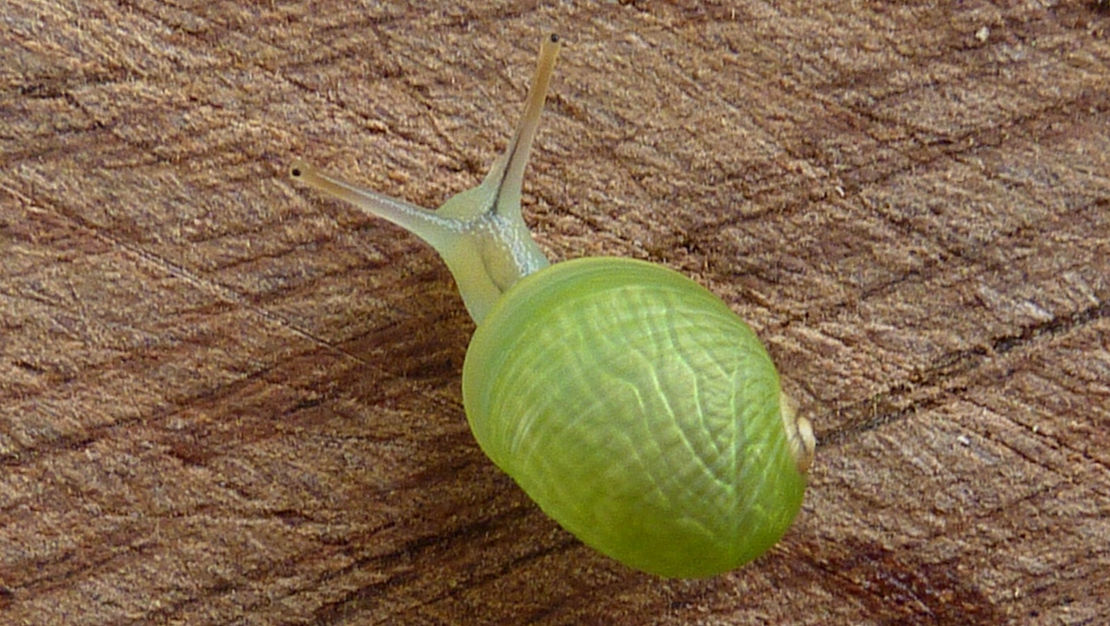 Photo of dorsal view of Simpulopsis rufovirens